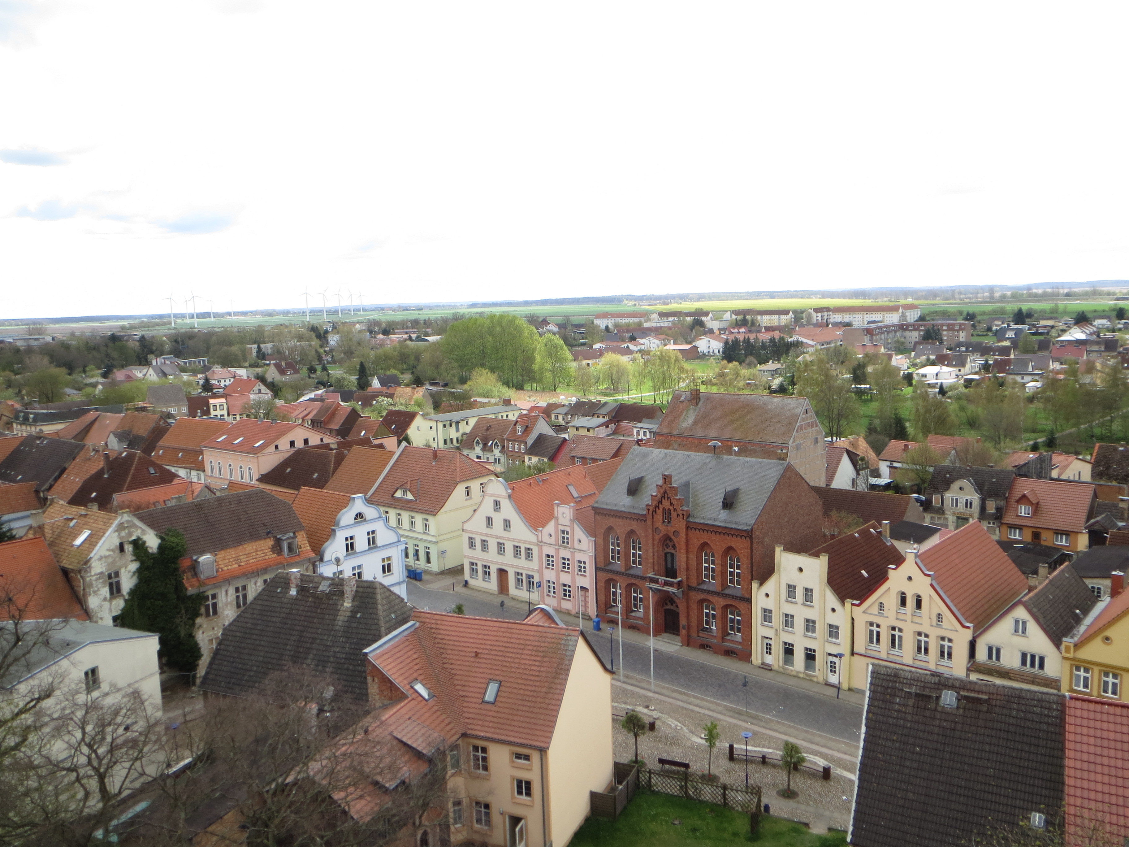 View from St Thomas Tribsees